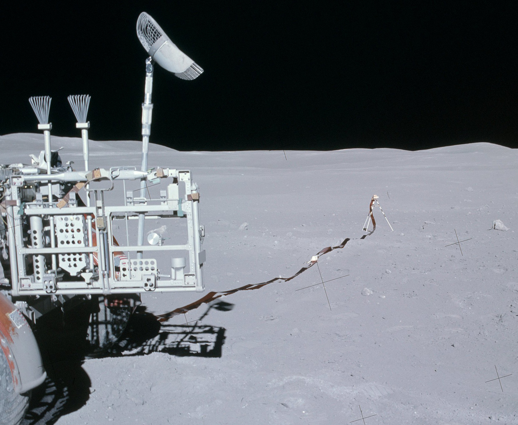 Lunar Portable Magnetometer (LPM) deployed at Spook crater during Apollo 16 (EVA 1), on the moon. Back end of the Lunar Roving Vehicle is at left.